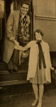 Nick Stuart and Sue Carol at Union Station, Los Angeles, 1928 Other information for information regarding public domain